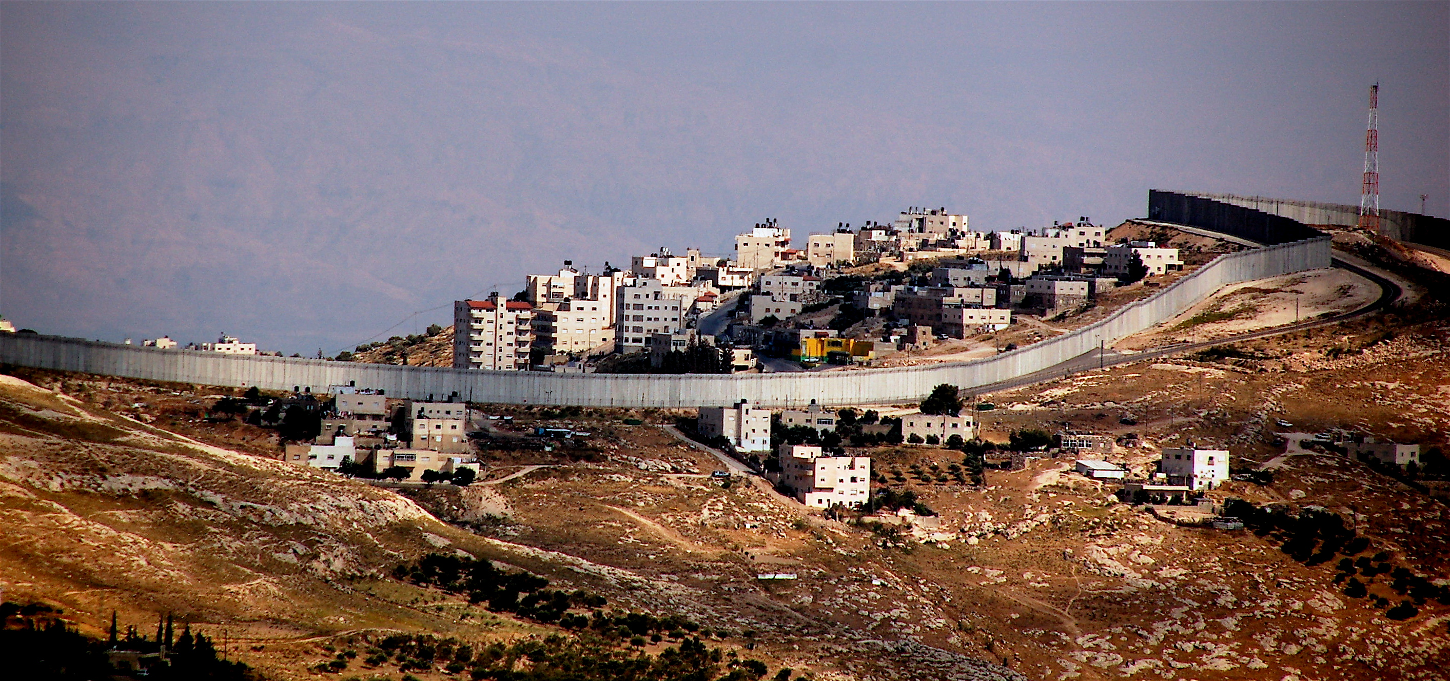 Views of Jerusalem from Mount of Olives, in Hebrew called Har ha-Zetim. Gethsemane (Hebrew gat shemanim) is literally oil press.